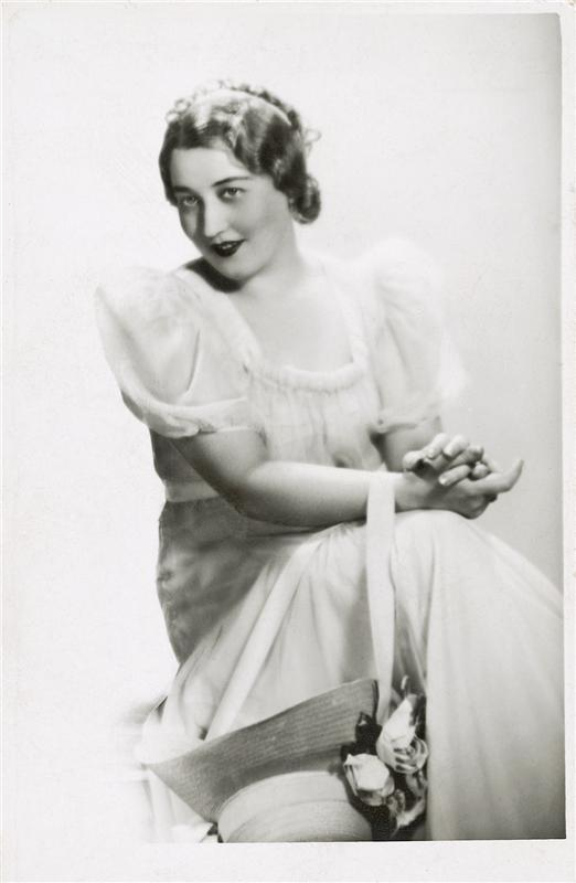 Czech soprano Ota Horáková as Julietta in Bohuslav Martinů’s opera in the day of the first performance at the National Theatre, Prague